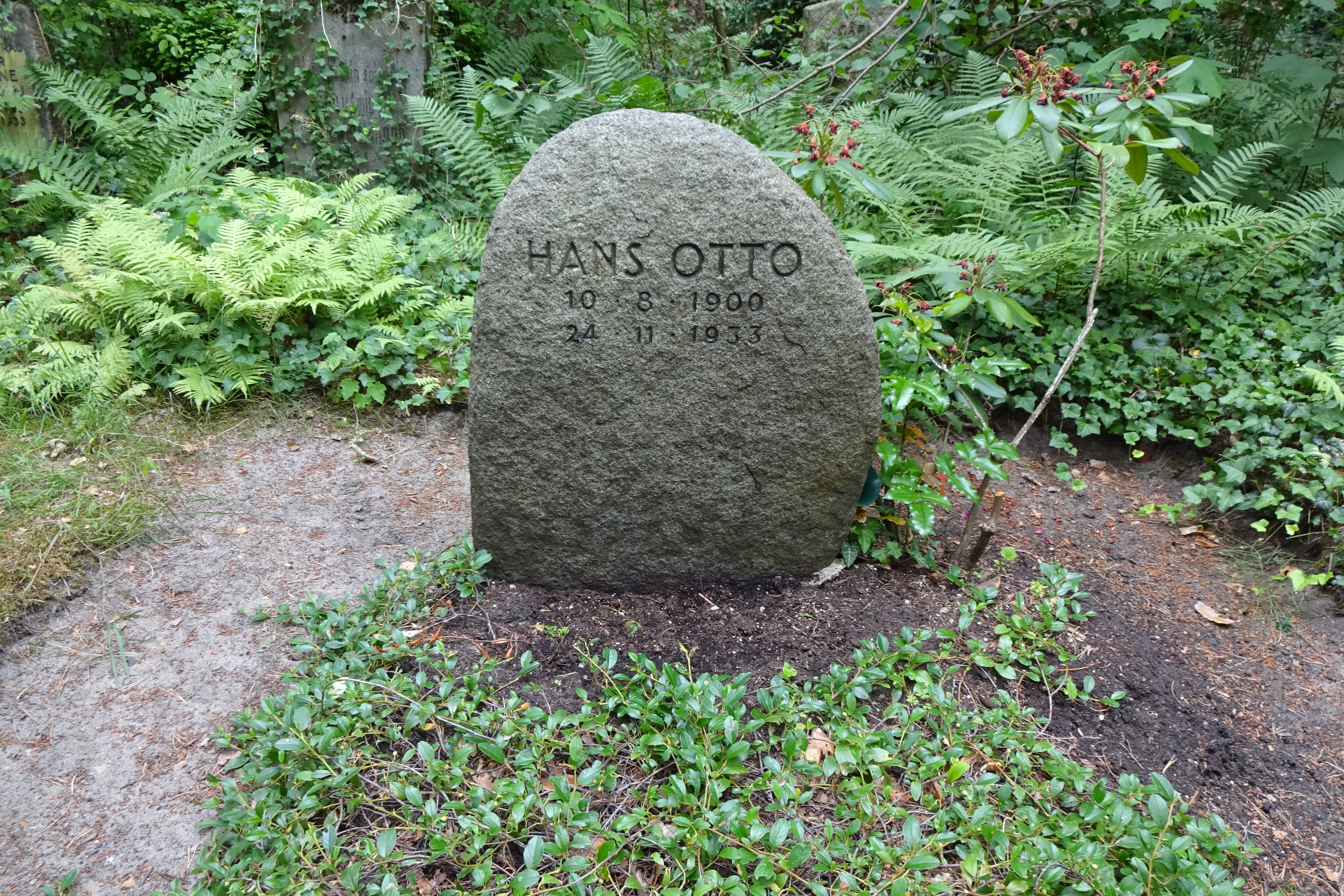 Grave of German actor Hans Otto in Wilmersdorfer Waldfriedhof Stahnsdorf